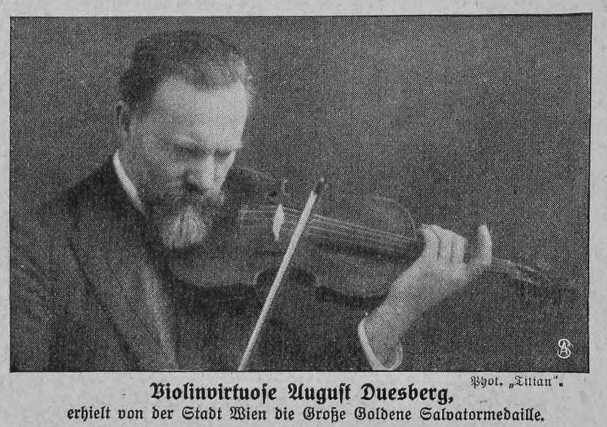 The German violinist August Duesberg (1867–1922) in Vienna, Austria. The text below the picture indicates a distinction Grosse Goldene Salvatormedaille (= Large Golden Salvator Medal) of the city of Vienna which was lend to August Duesberg in 1914. This disctinction was given to musicians rarely.